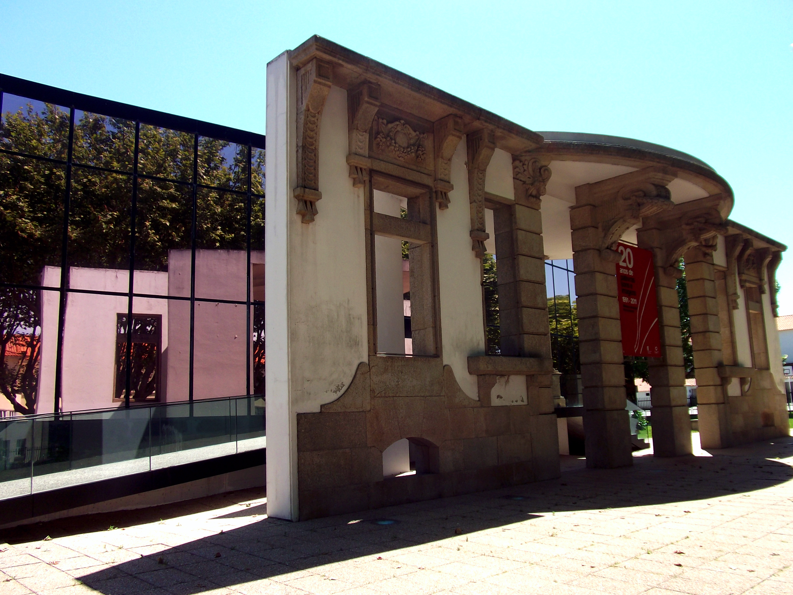 Rocha Peixoto Library, Póvoa de Varzim, Portugal